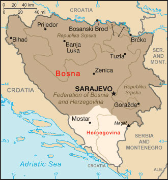 Source: Bosnian Wikipedia Category:Maps of Bosnia and Herzegovina Category:Maps of the Federation of Bosnia and Herzegovina Category:Maps of the Republika Srpska